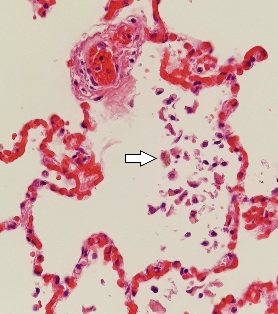 Histopathology showing:- Pulmonary congestion: red blood cells distending pulmonary vessels, and filling alveolar walls- Siderophages: one indicated by white arrowThe picture indicates chronic left heart failure. The lymphocytic infiltrate is consistent with this.